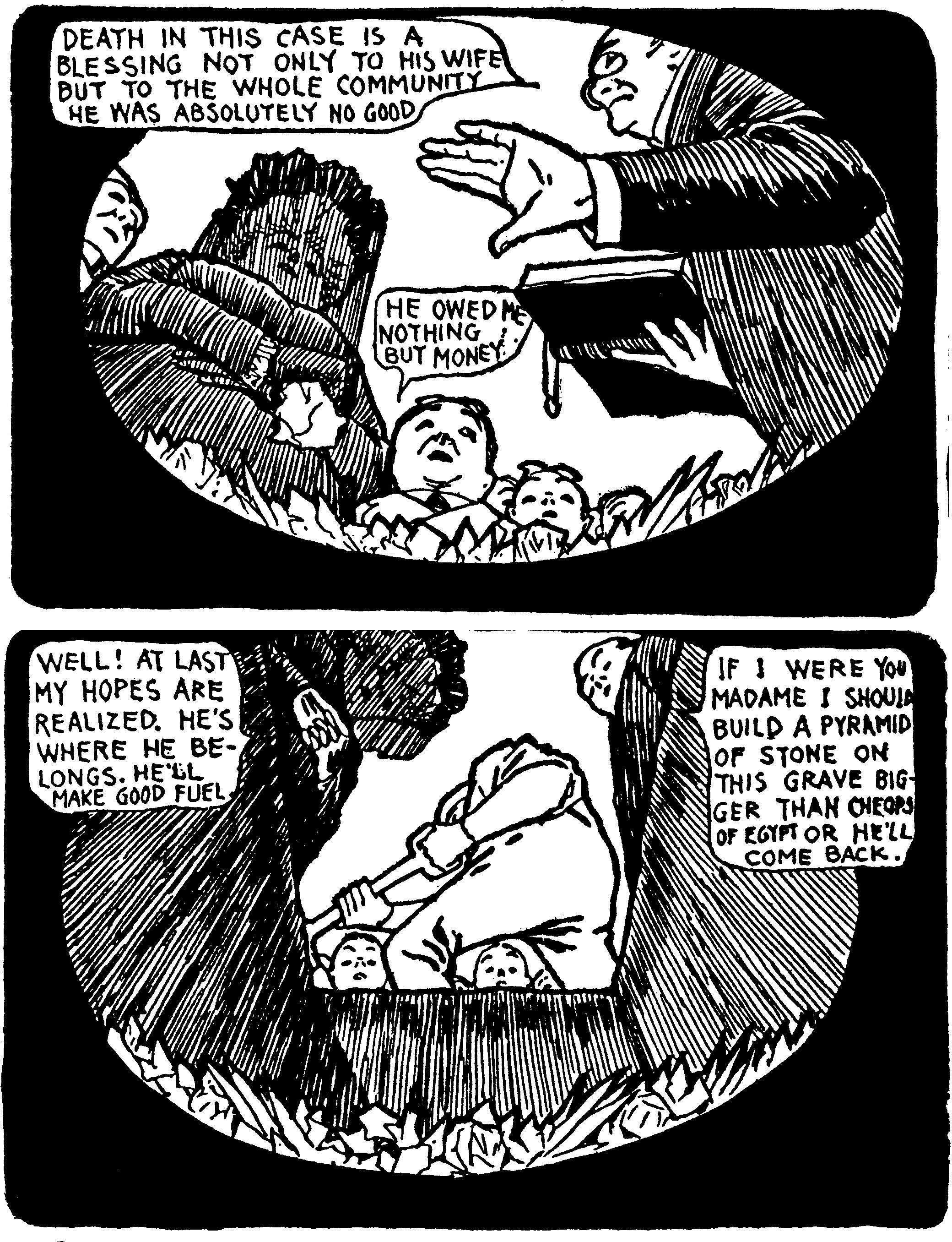 Two panels from a Dream of the Rarebit Fiend episode from 1905-02-25 by American cartoonist Winsor McCay